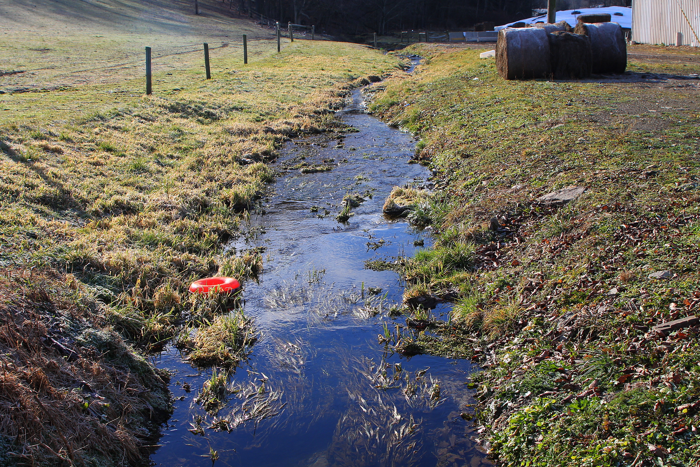 Davis Hollow, a minor tributary of Fishing Creek, looking downstream